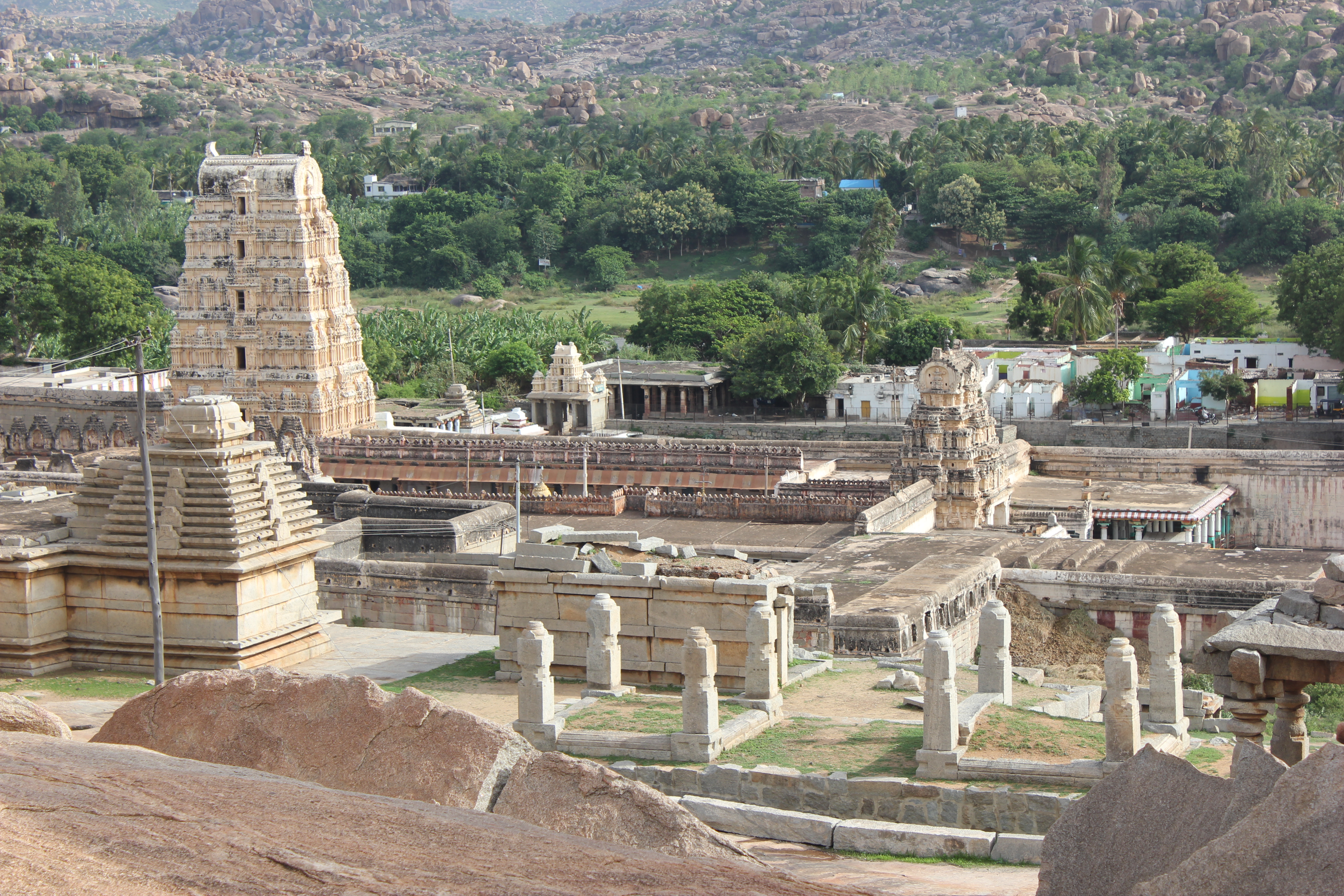 This photograph of the gopura (tower) of the Virupaksha temple was taken by me from the Hemakuta hill temple complex at Hampi, a UNESCO world heritage site in Bellary district, Karnataka state, India. The temple has received patronage and upgrades starting from the 10th century Western Chalukya period to the 16th century Vijayanagara empire period